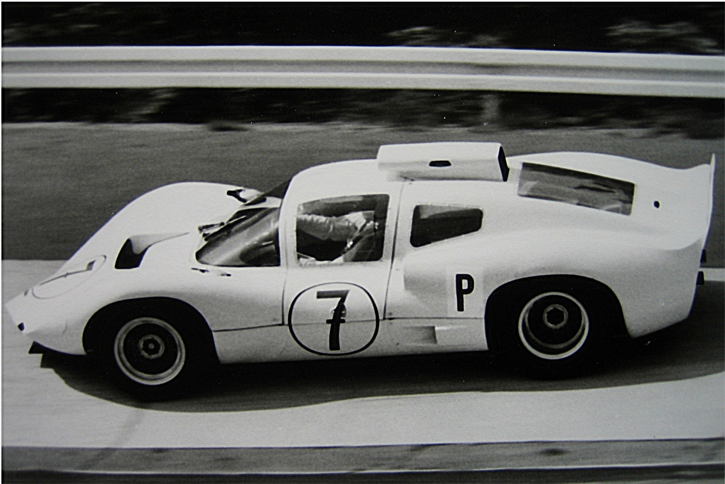 Joakim Bonnier driving a Chaparral 2D in a qualifying session for the 1000 km Nürburgring 1966